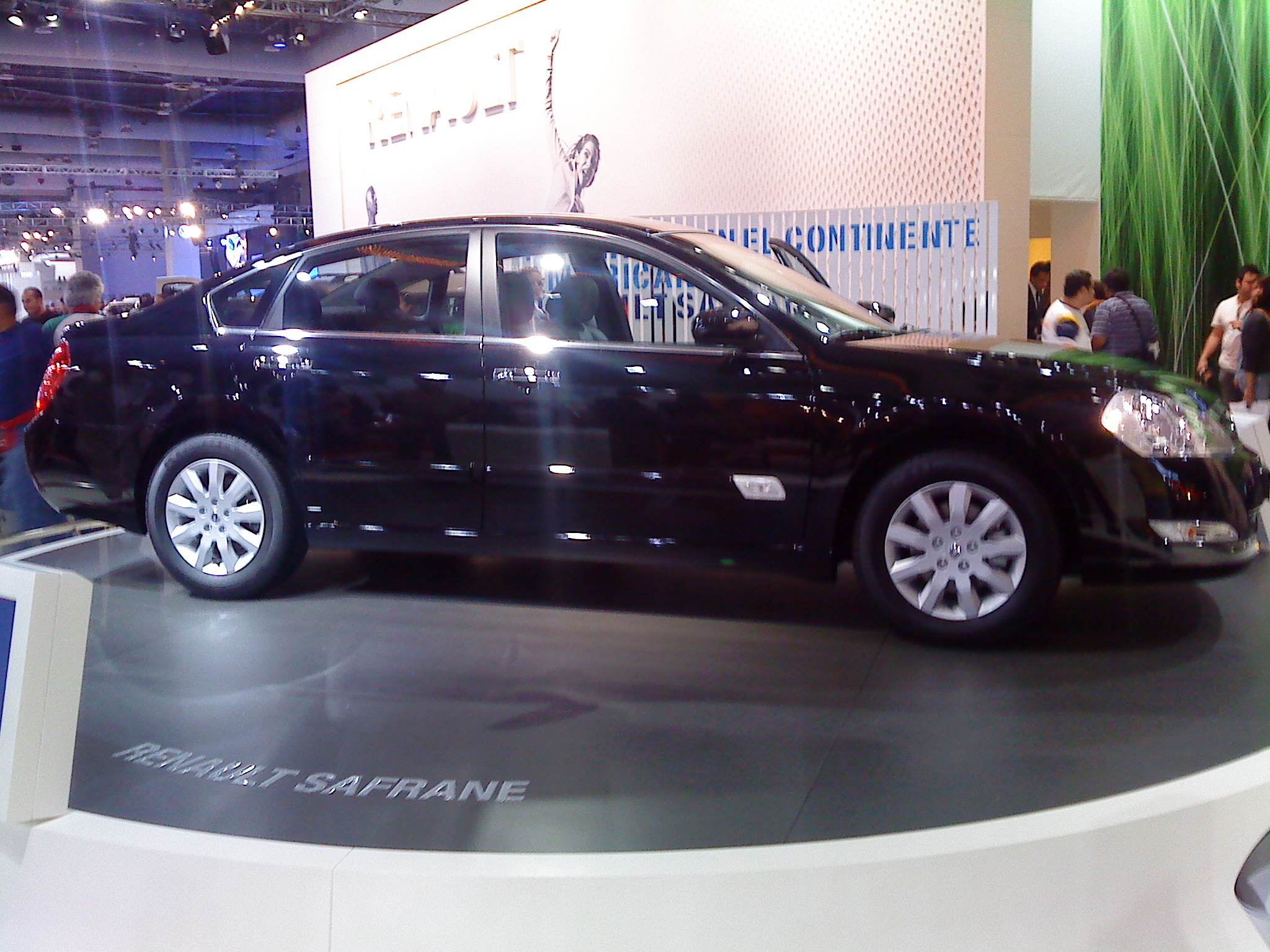 The second generation Renault Safrane at the 2008 SIAM.